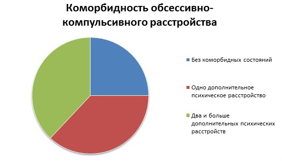 Comorbidity of obsessive-compulsive disorder